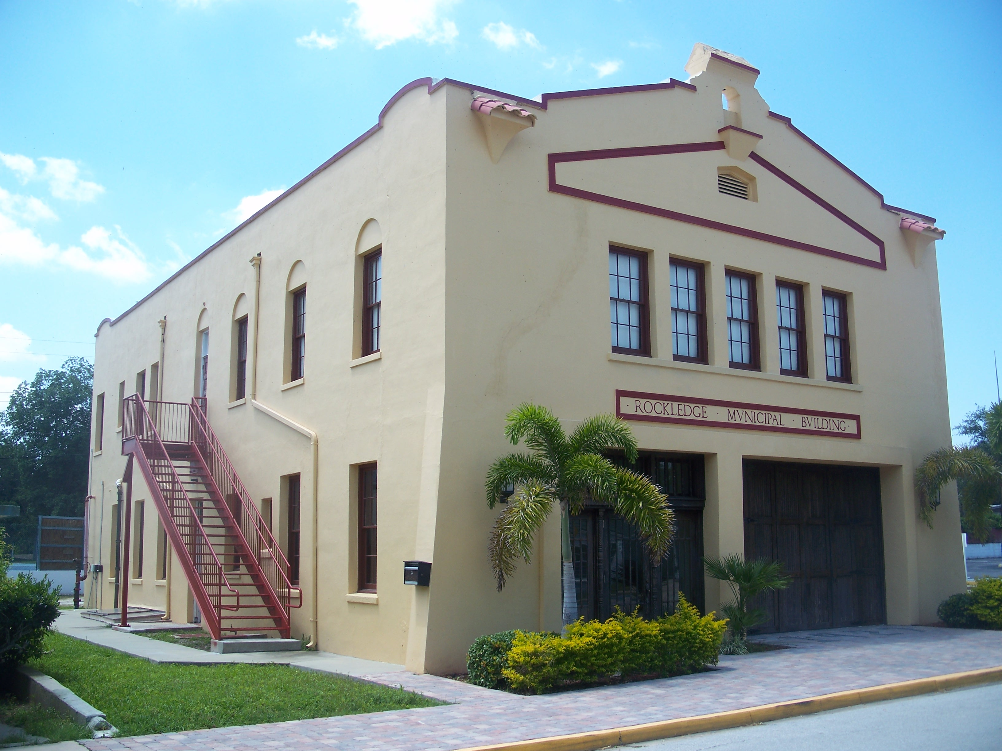 Rockledge, Florida: Rockledge Drive Residential District